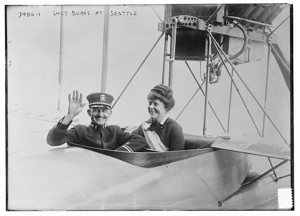 Bain News Service,, publisher. Lucy burns at Seattle [between ca. 1915 and ca. 1920] 1 negative : glass ; 5 x 7 in. or smaller. Notes: Title from unverified data provided by the Bain News Service on the negatives or caption cards. Forms part of: George Grantham Bain Collection (Library of Congress). Format: Glass negatives. Repository: Library of Congress, Prints and Photographs Division, Washington, D.C. 20540 USA, General information about the Bain Collection is available at Higher resolution image is available (Persistent URL): Call Number: LC-B2- 3956-1